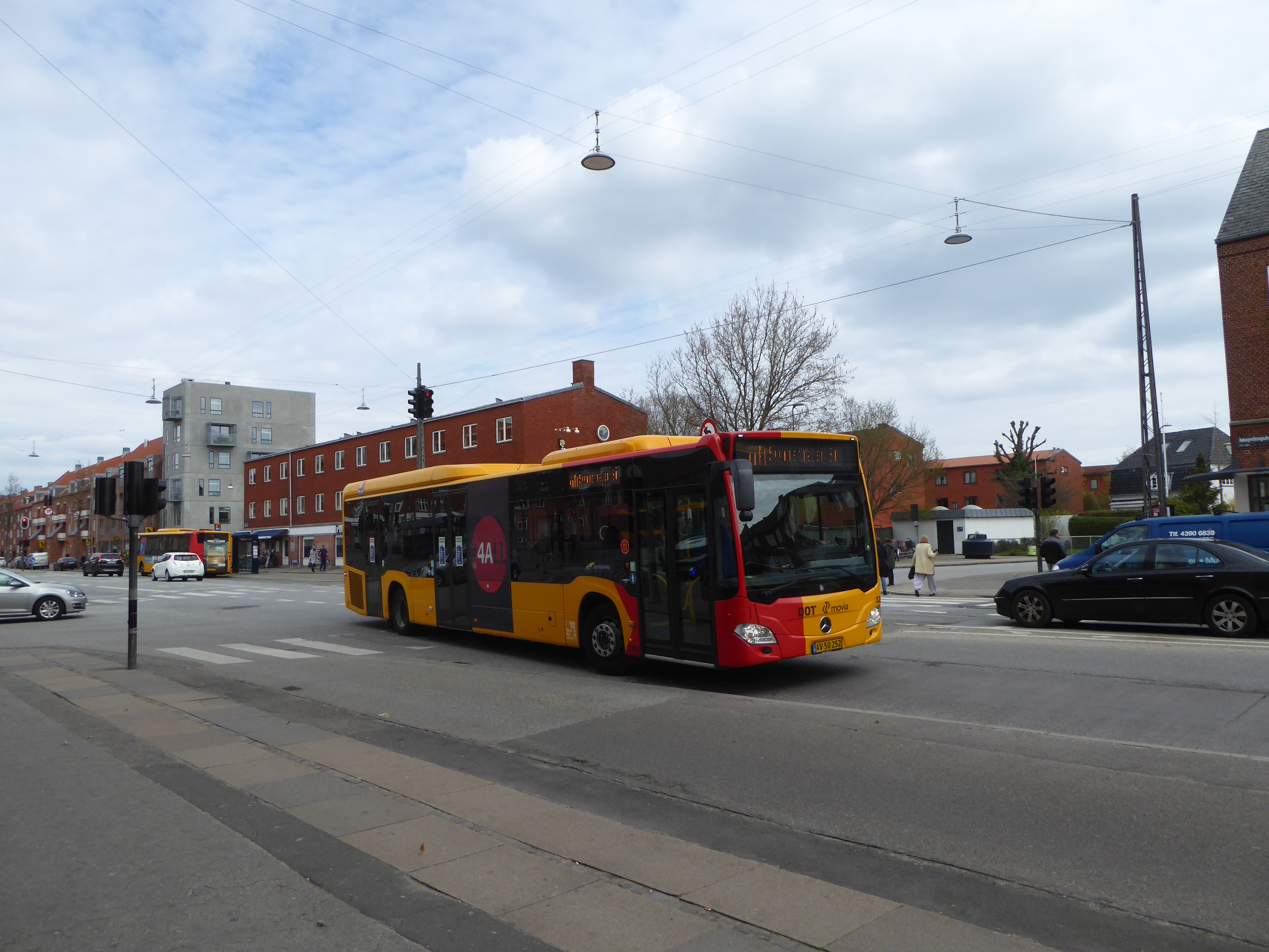 Movia bus line 4A on Amagerbrogade at Sundbyvester Plads in Sundbyvester in Copenhagen.